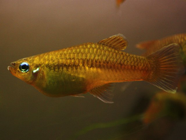 Female Isthmian Priapella (Priapella intermedia)